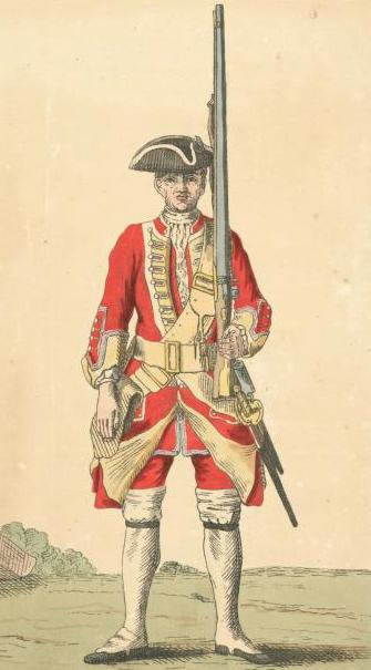 Soldier of the 25th regiment (1742)